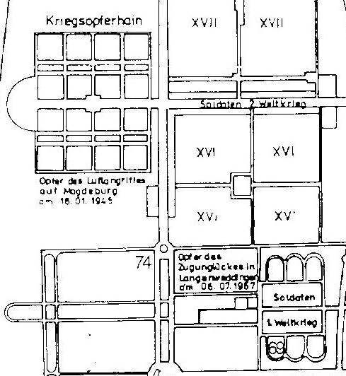 Magdeburg Layout Plan Westfriedhof War Graves